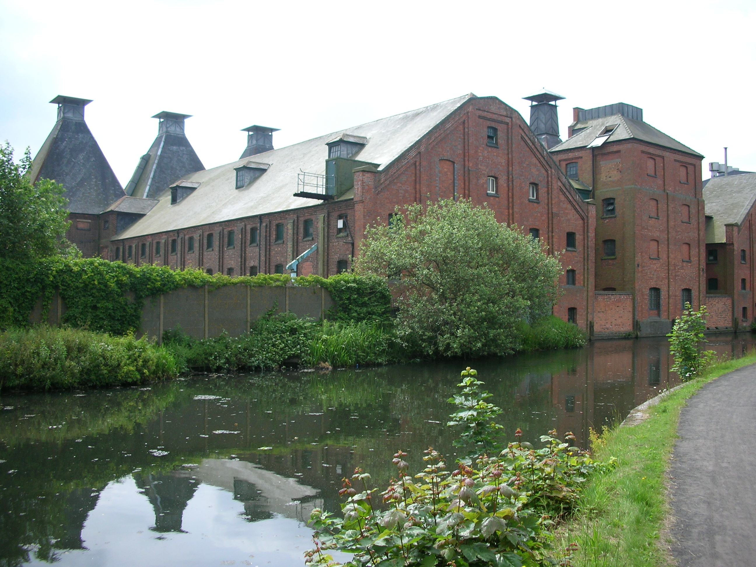 The restored Langley Maltings (1870), a beer brewery, on the Titford Canal, the highest part of the Birmingham Canal Navigations. Photographed by me 13 June 2007. Oosoom 14:38, 14 June 2007 (UTC)